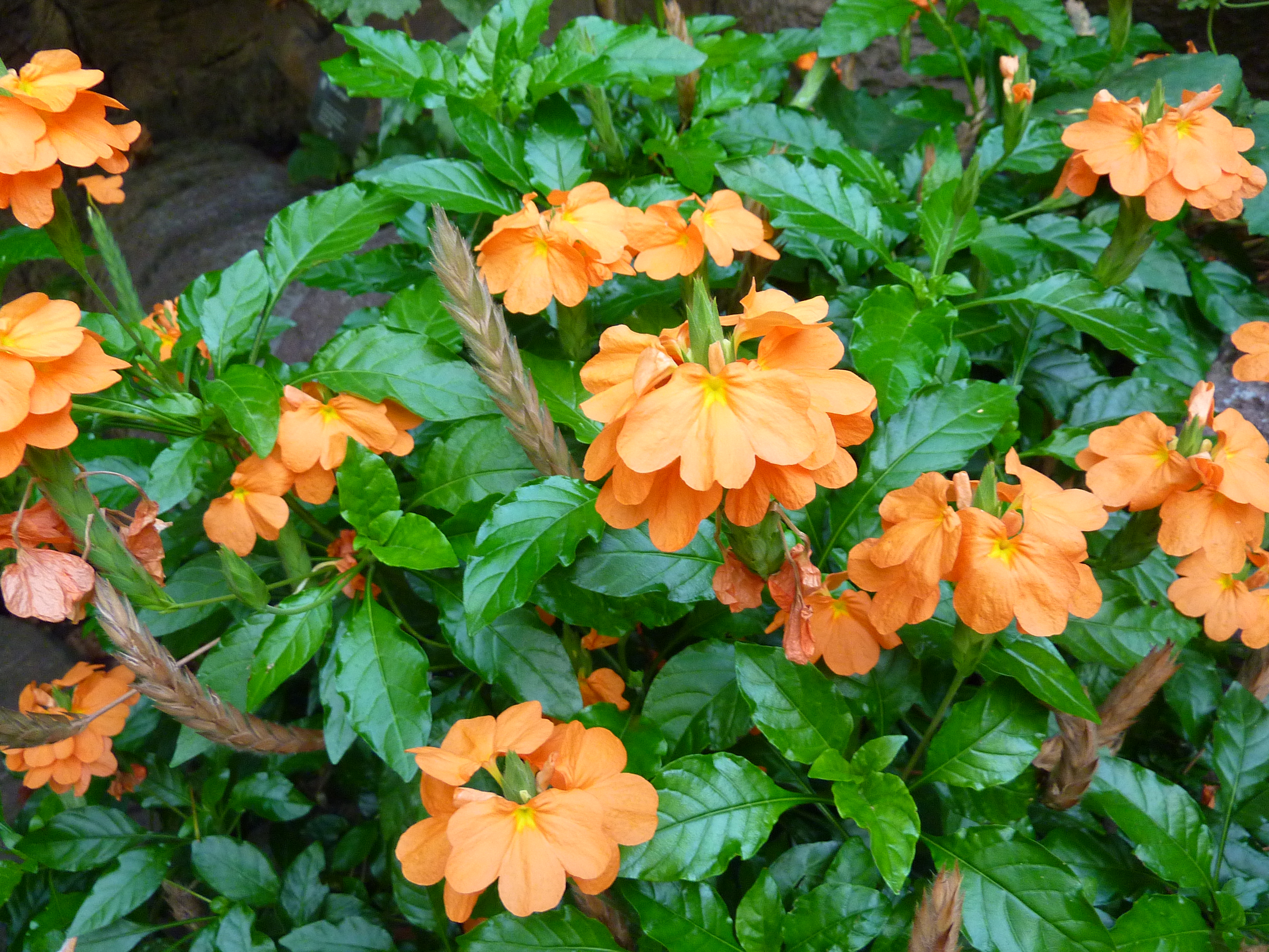 Crossandra infundibuliformis flowering in the Temperate House of the Missouri Botanical Garden